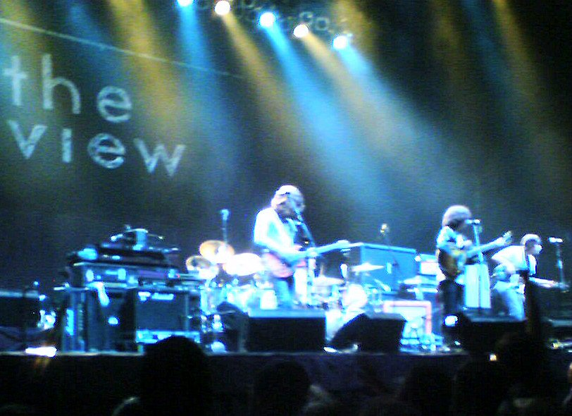 The View at the Glasgow SECC